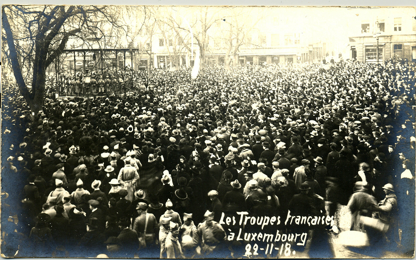 22 november 1918: Military parade by french troops in Luxembourg City .